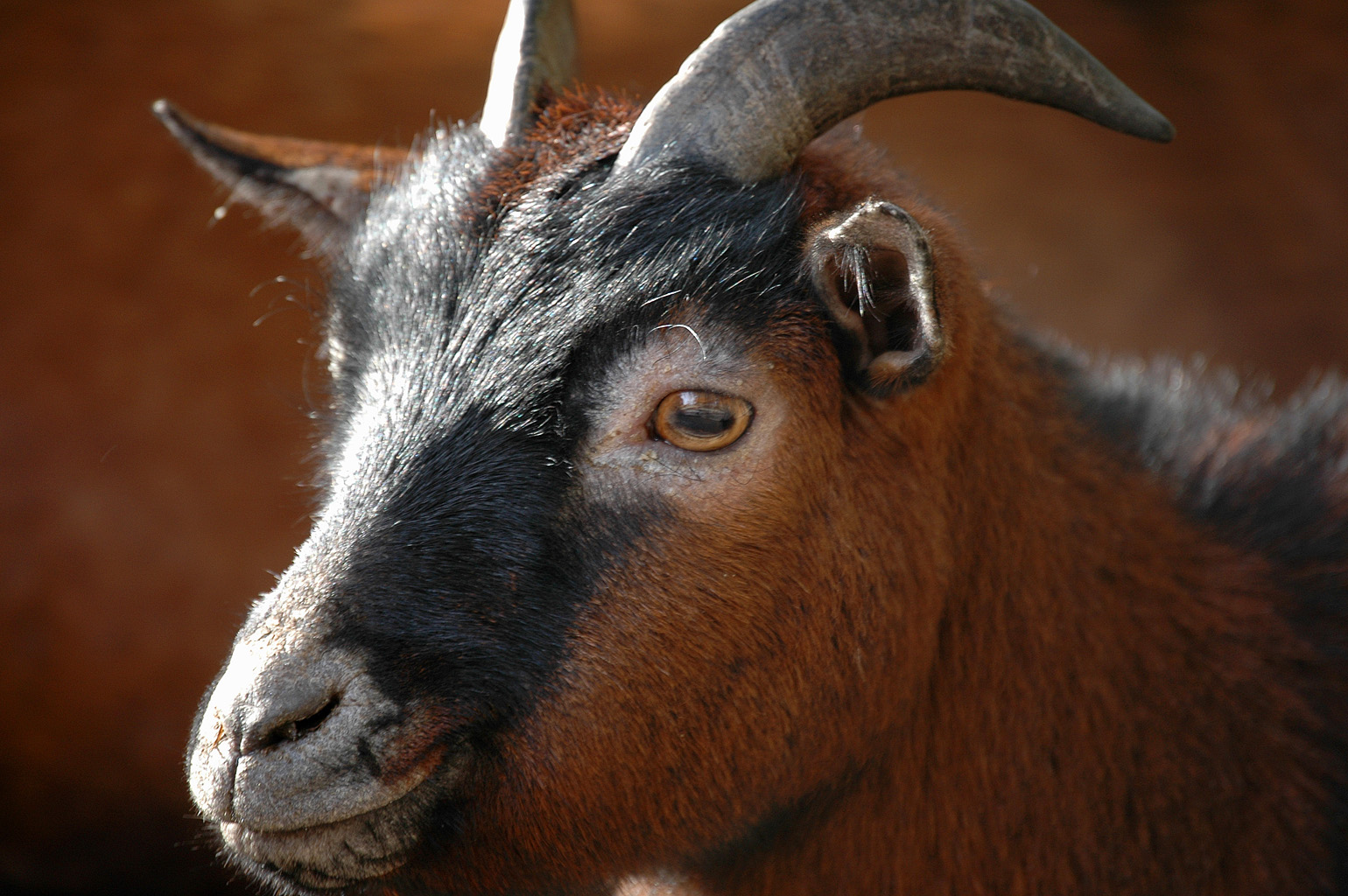 Goat spotted in Dierenpark Planckendael, Belgium